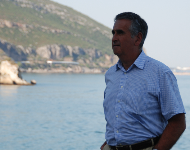 ViscondeXimenez